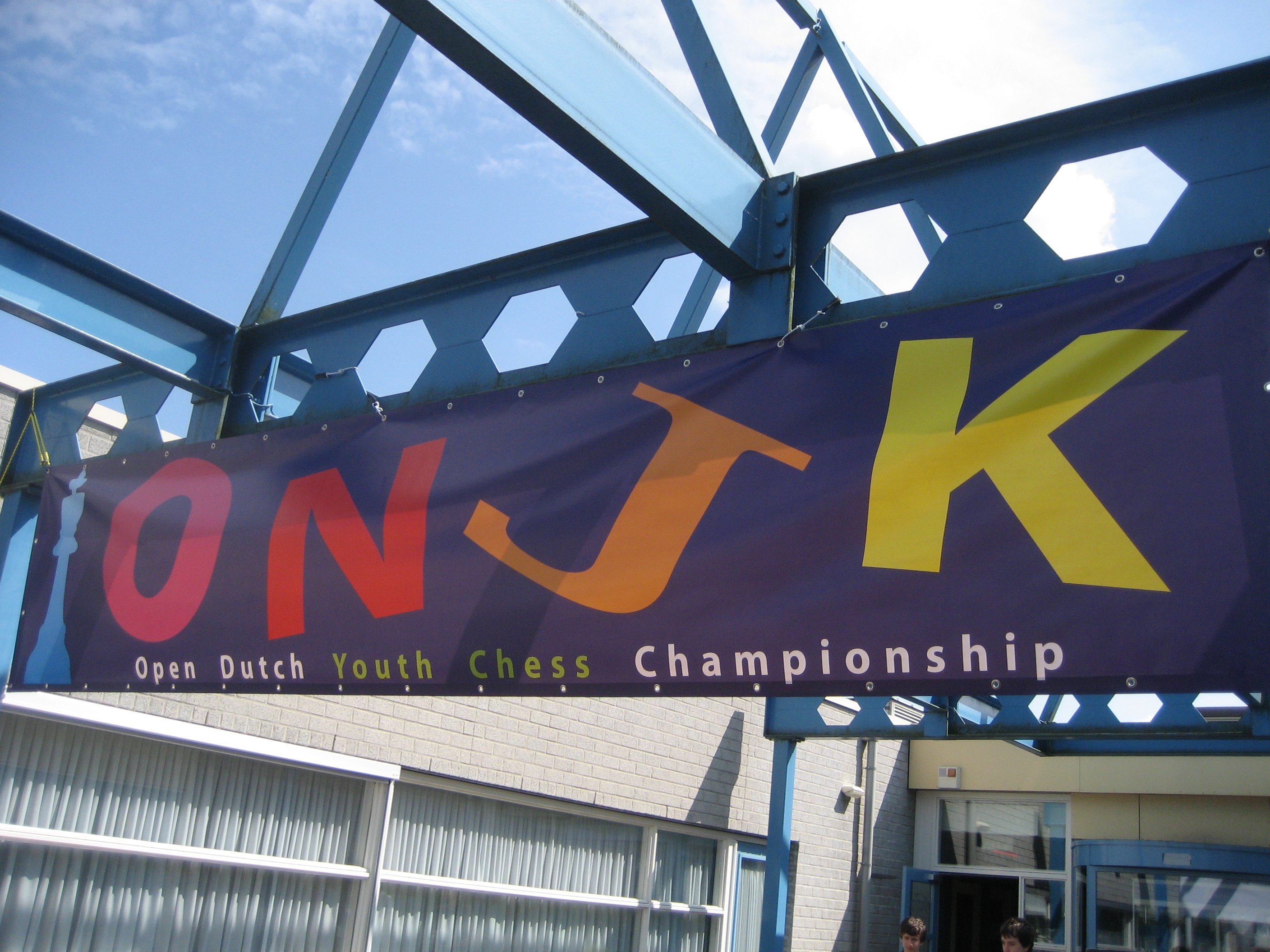 Open Dutch Youth Chess Championship (Open Nederlandse Jeugdschaak Kampioenschappen = ONJK) 40th edition 2014, Borne, Twente (The Netherlands)